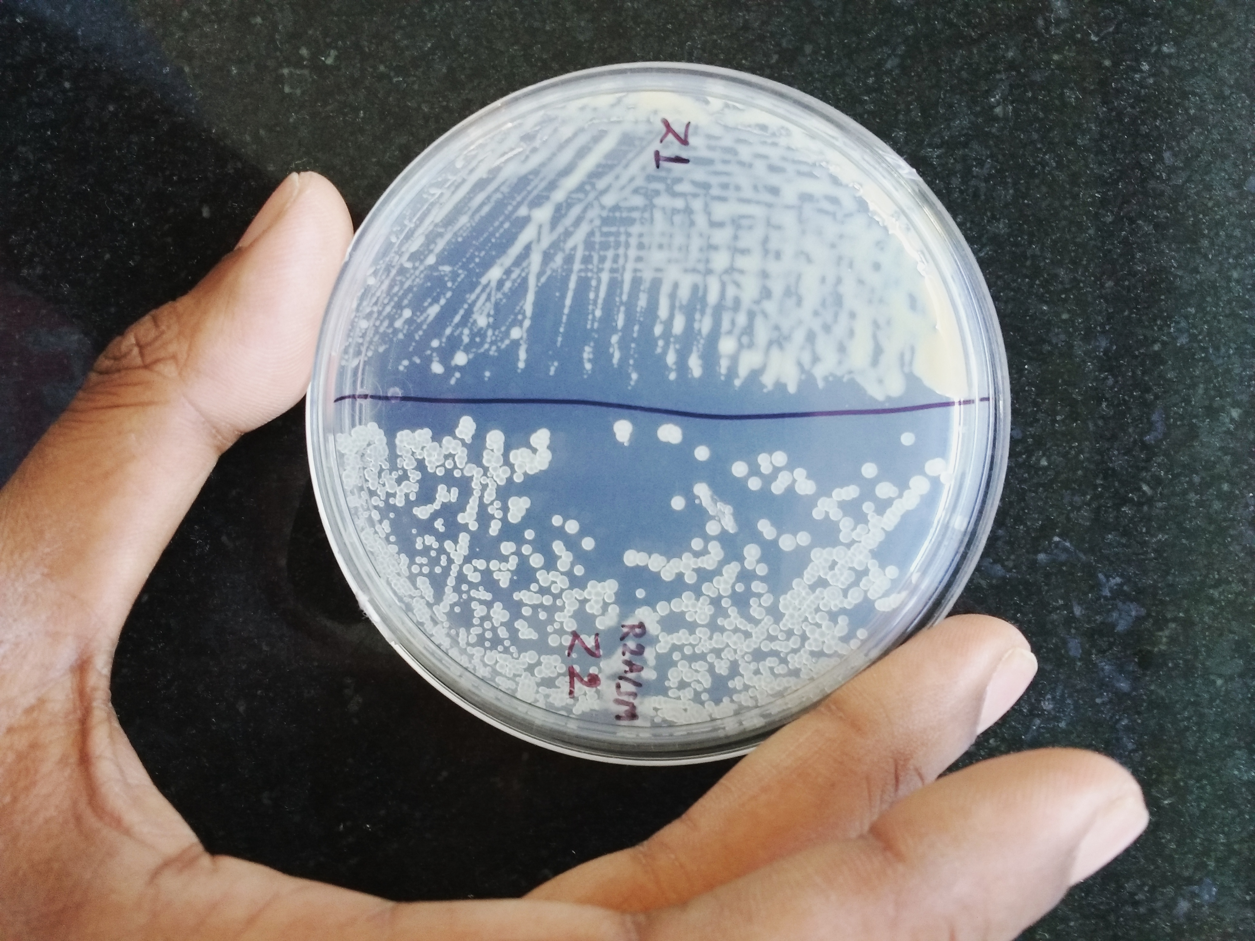 giugvi